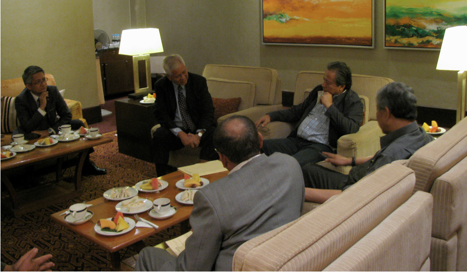 Secretary of Foreign Affairs Albert F. del Rosario (2nd from left) met with Malaysian Foreign Minister Dato Sri’ Anifah Aman (2nd from right) and Defense Minister Dato’ Seri Dr. Ahmad Zamid Hamidi (rightmost) midnight Monday, March 4, in Kuala Lumpur and discussed ways on how to peacefully resolve the incident in Lahad Datu.